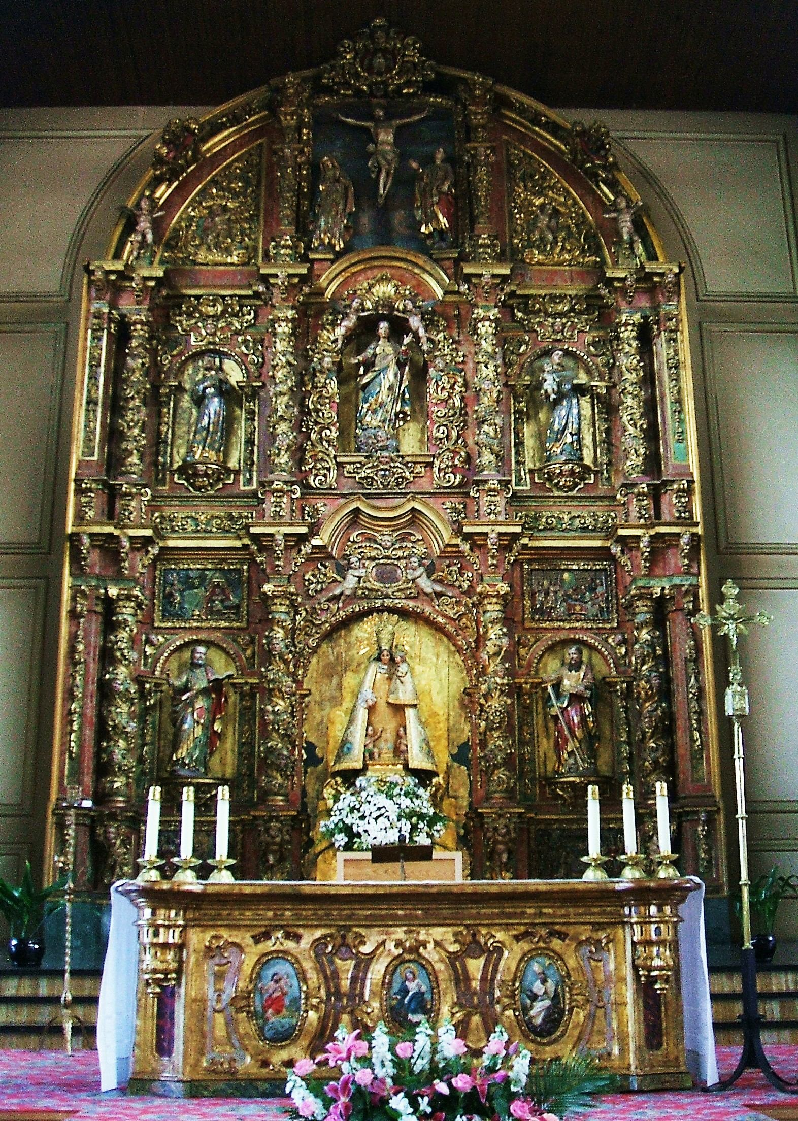 Retablo mayor de la Iglesia Parroquial de Nuestra Señora de los Desamparados, Vitoria-Gasteiz, País Vasco, Vitoria